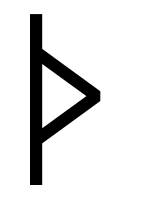 runic letter thurisaz